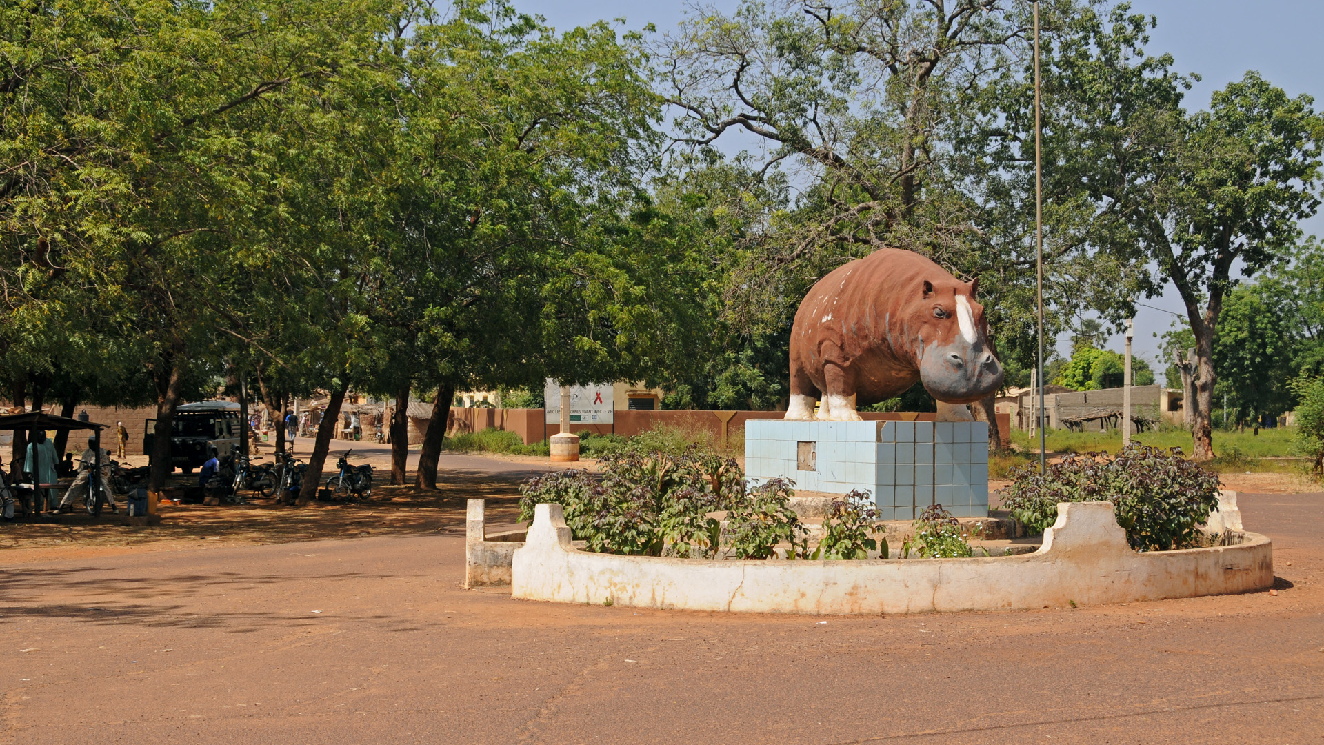 Bafoulabé